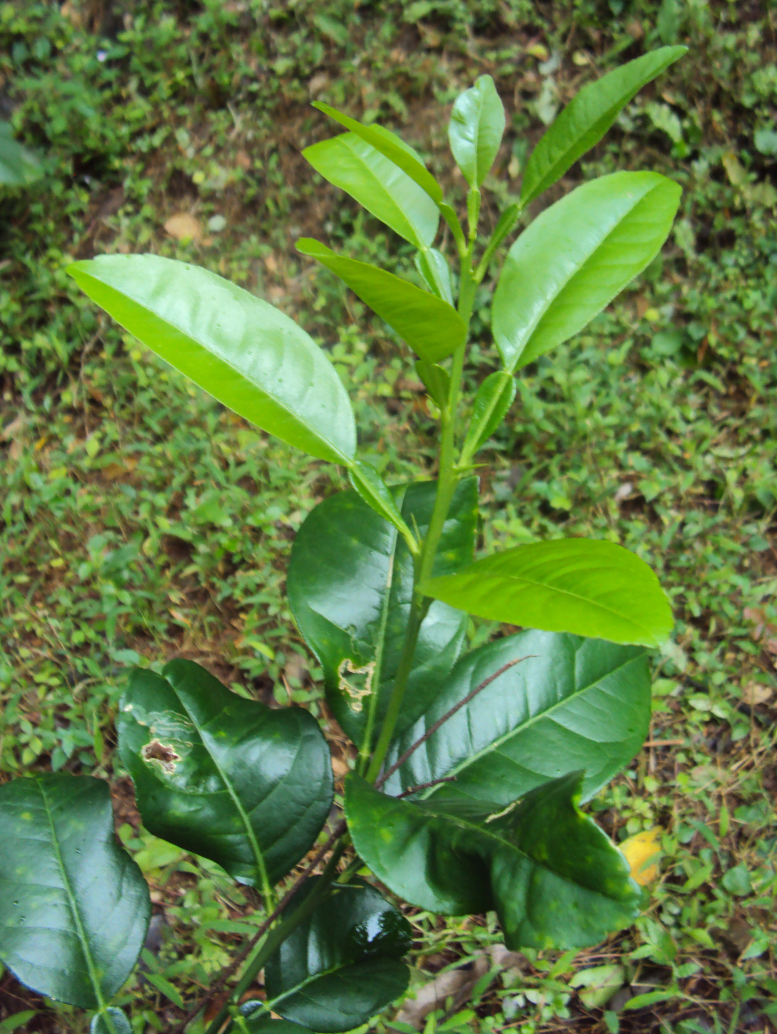 Citrus aurantifolia leaves - വടുകപ്പുളി നാരകം